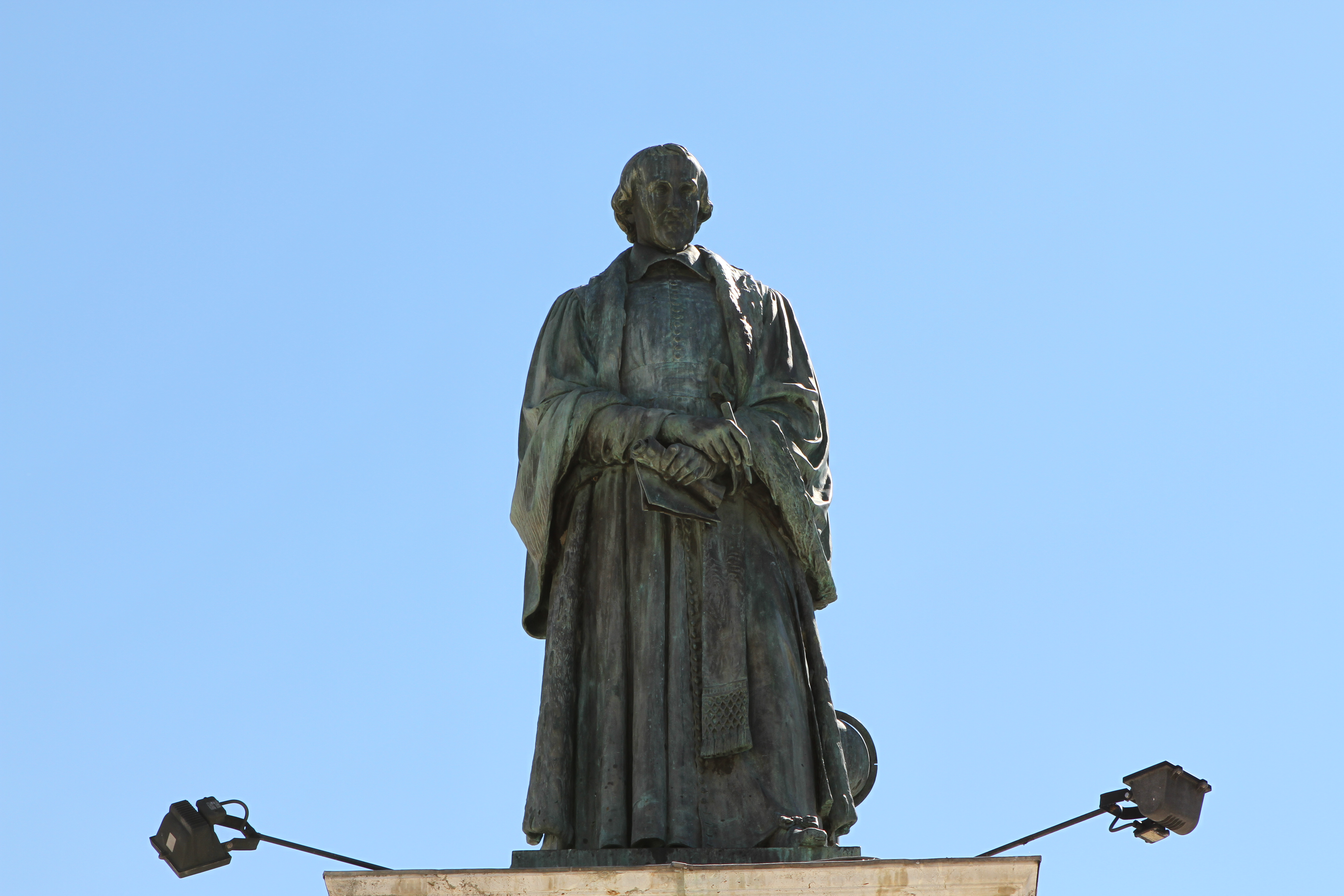 Monument Pierre Gassendi in Digne-les-Bains (Alpes-de-Haute-Provence, France)